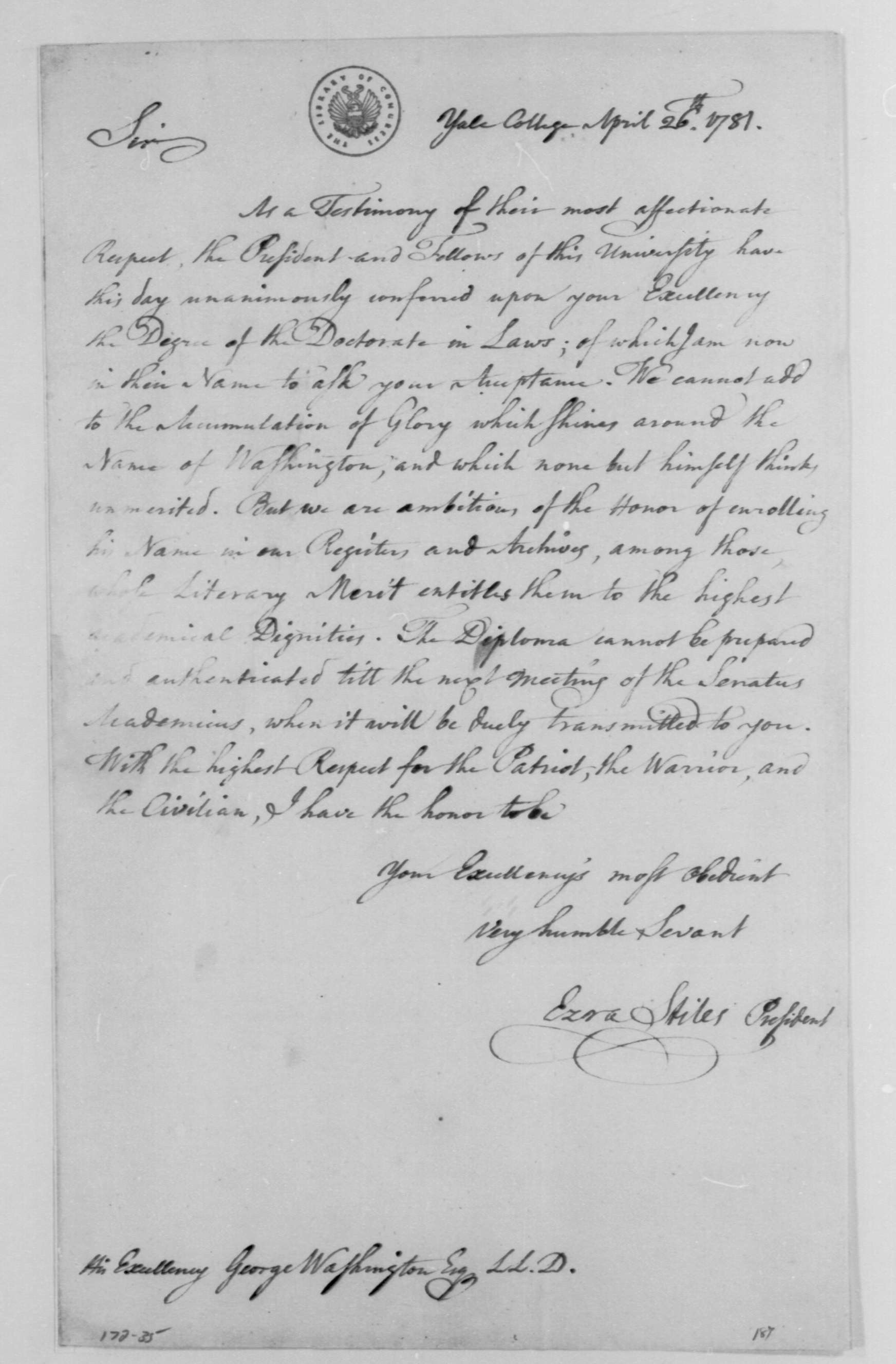 Letter from Ezra Stiles, president of Yale College, to George Washington, announcing the awarding of an honorary degree (Doctor of Laws) to Washington by the President and Fellows of Yale College, New Haven, Connecticut. George Washington Papers, General Correspondence, Series 4, The Library of Congress, Washington, D. C.